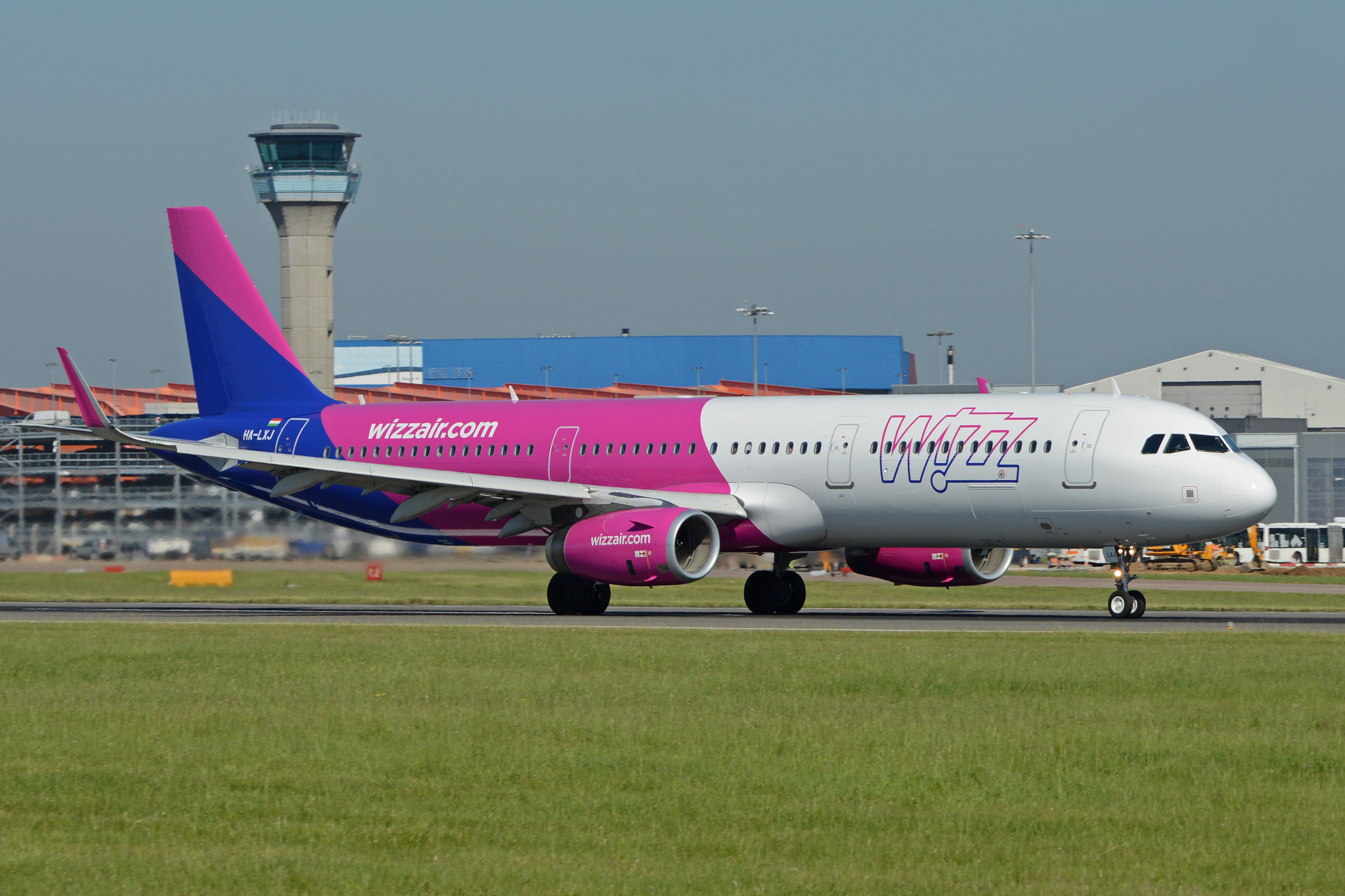 c/n 7316. Built 2016. Seen departing on flight W641601 / WZZ100B to Gdansk. London Luton Airport, UK. 26th May 2017